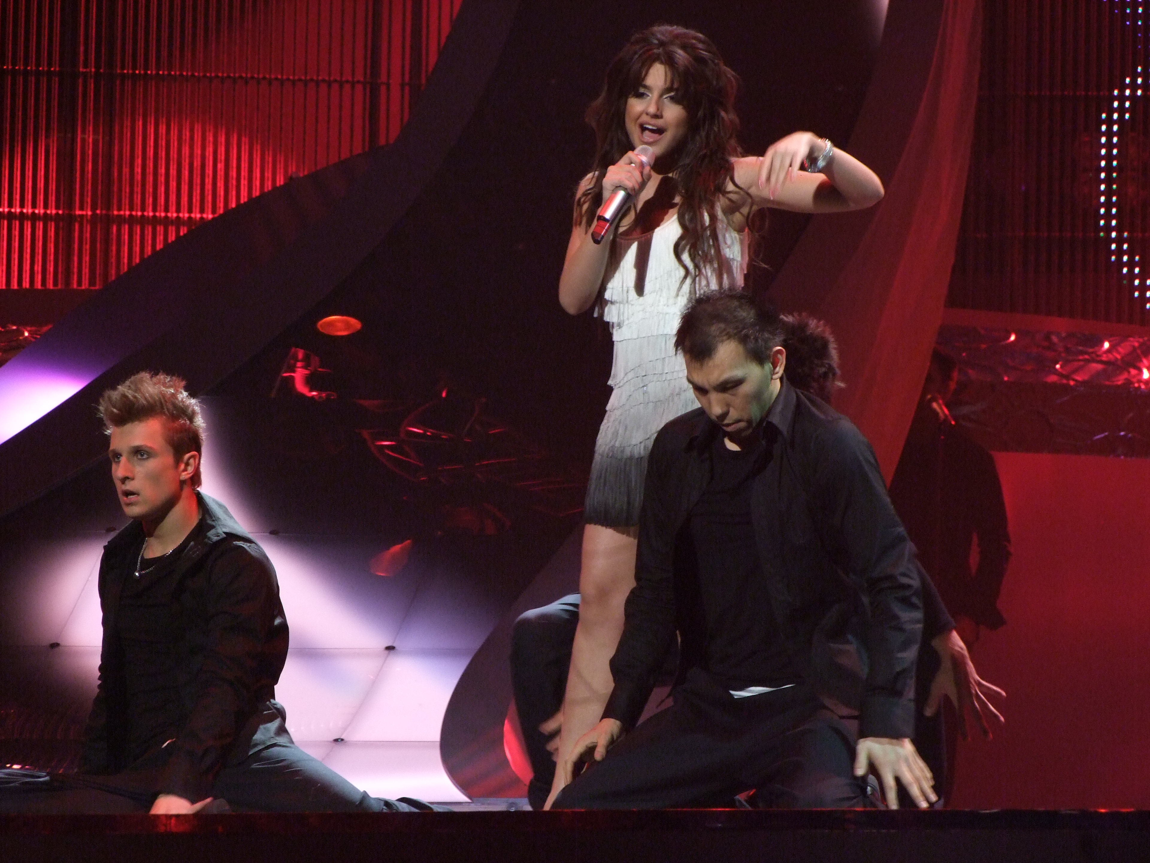 Sirusho, representative of Armenia in Eurovision Song Contest 2008. Taken in Belgrade, 2008. Personality rights warningAlthough this work is freely licensed or in the public domain, the person(s) shown may have rights that legally restrict certain re-uses unless those depicted consent to such uses. In these cases, a model release or other evidence of consent could protect you from infringement claims.